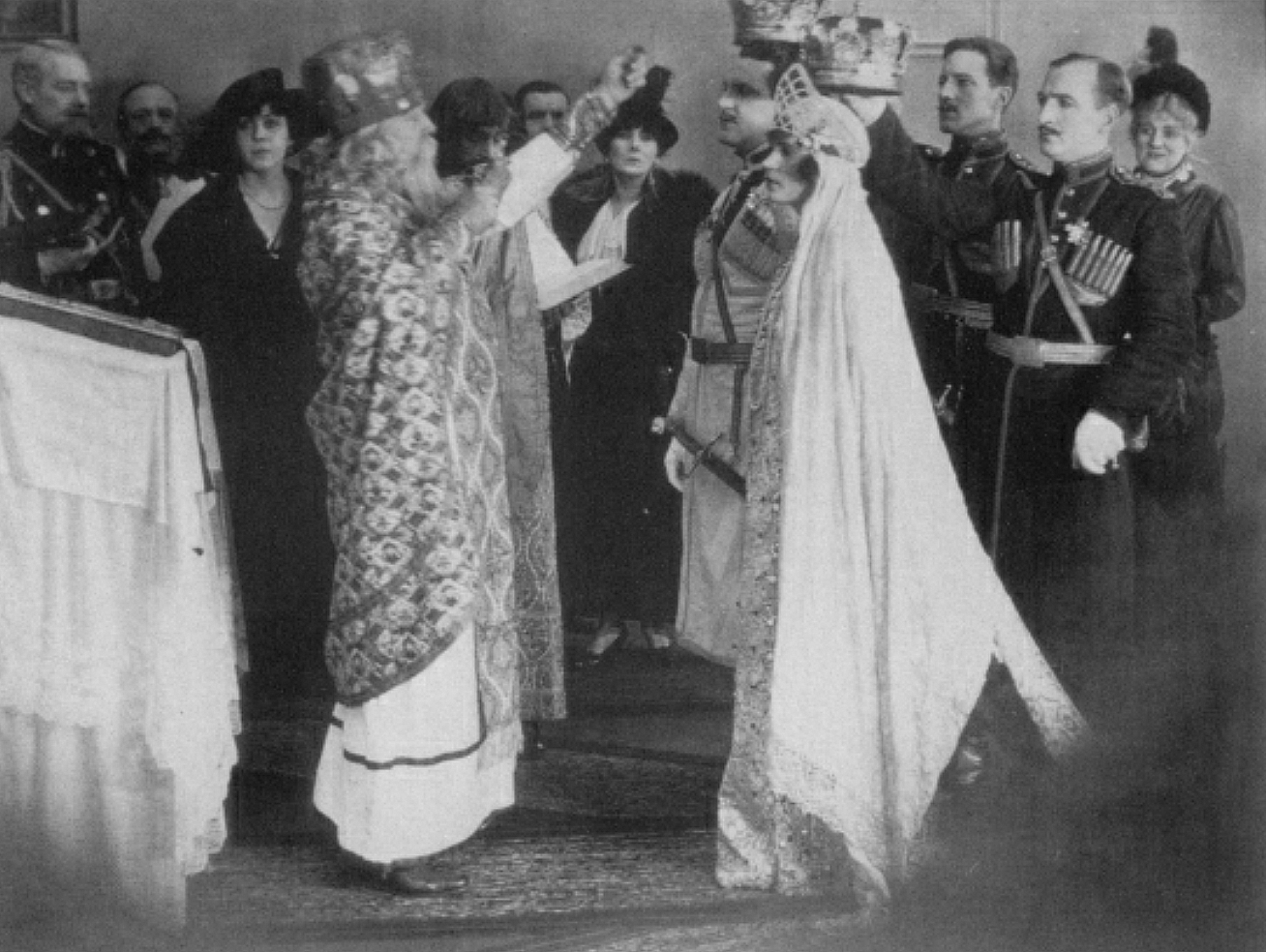 Publicity still by World Film Company of John Bowers and Alice Brady in a scene from their silent film Darkest Russia, made in 1917.